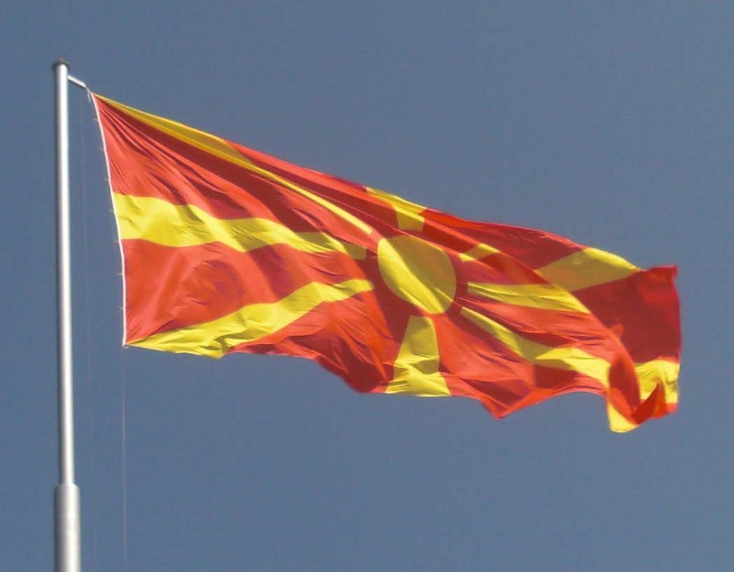 Flag of the Rep. of Macedonia, crop from File:Wavingmacedonianflag.JPG